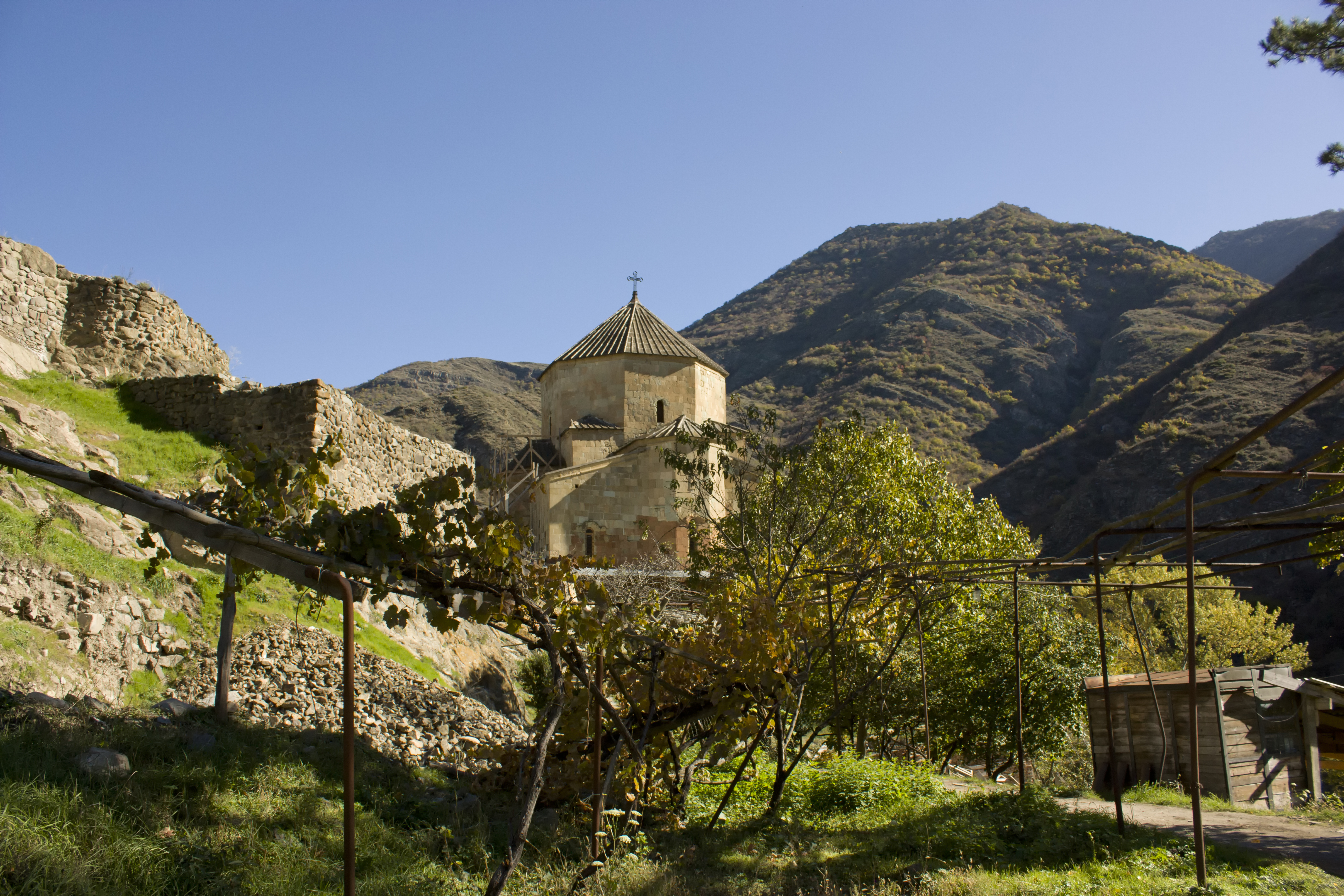 The Ateni Sioni Church (Georgian: ატენის სიონი) is an early 7th-century Georgian Orthodox church some 10 km (6 miles) south of the city of Gori, Georgia. It stands in a setting of the Tana River valley known not only for its historical monuments but also for its picturesque landscapes and wine. The name "Sioni" derives from Mount Zion at Jerusalem.